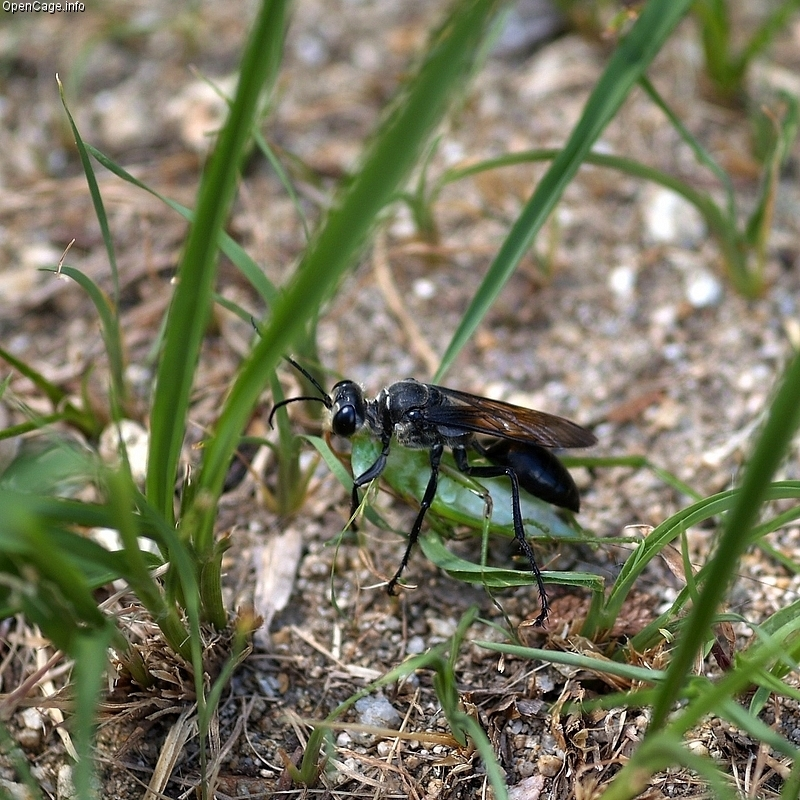 クロアナバチ Sphex argentatus fumosus Location 神戸市西区 Nishi-Ku, KOBE City, Japan Copyright OpenCage